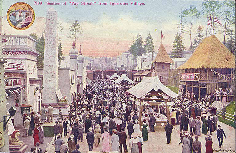 Caption on image: Section of "Pay Streak" from Igorrotes Village .PH Coll 78.180 Subjects (LCSH): Pay Streak (Seattle, Wash.); Igorrote Village (Seattle, Wash.); Exhibition buildings--Washington (State)--Seattle; Crowds--Washington (State)--Seattle; Pay Streak (Seattle, Wash.); Alaska-Yukon-Pacific Exposition (1909 : Seattle, Wash.); Exhibitions--Washington (State)--Seattle